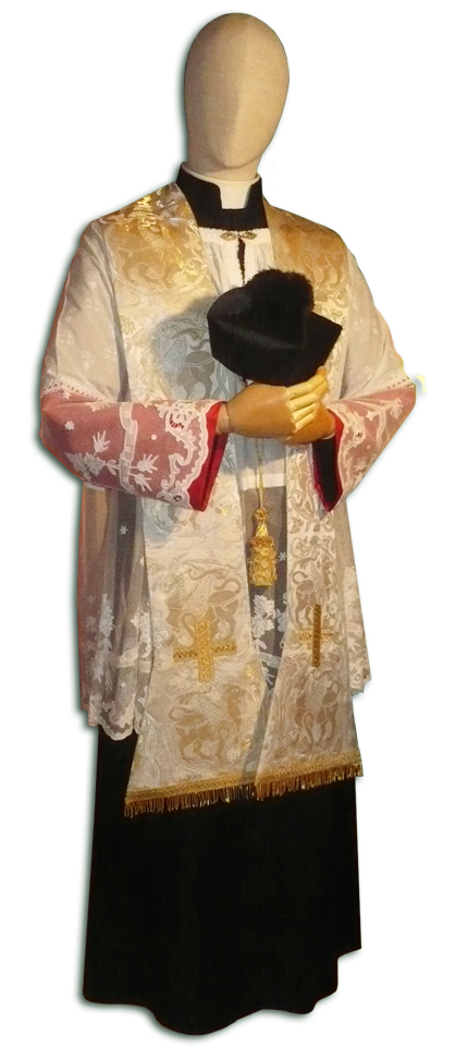 Pastoral stole